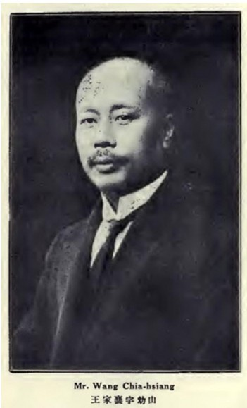 Wang Jiaxiang (1872-1928)